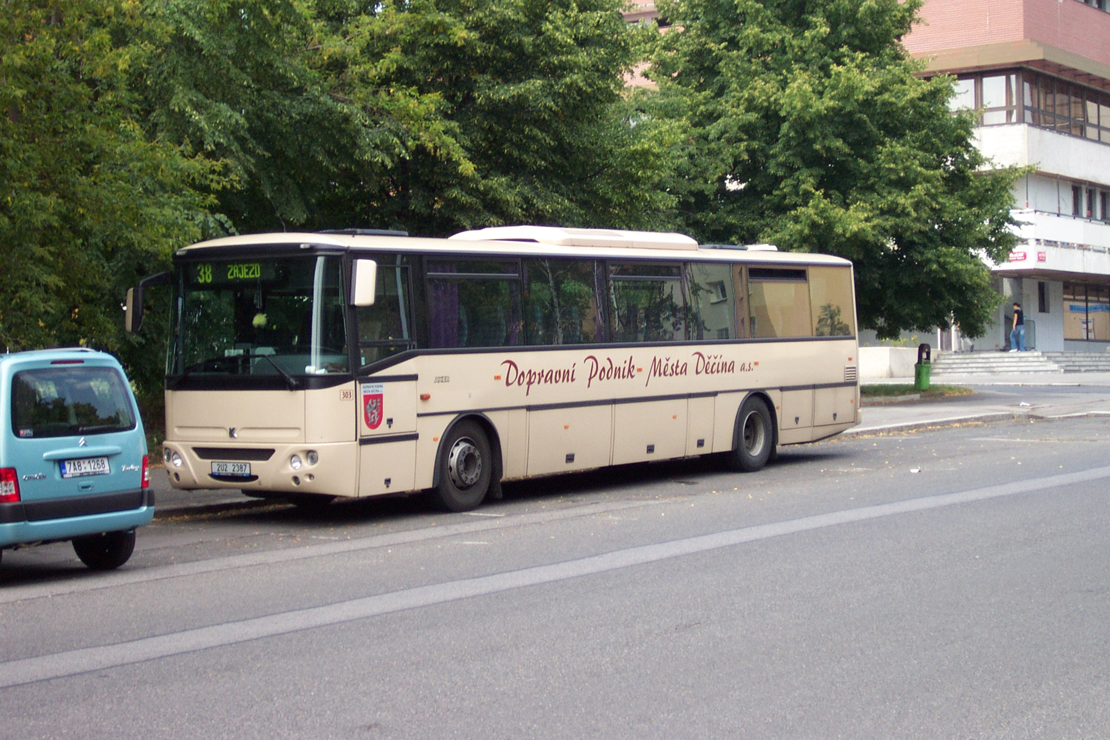 DP Děčín bus in Prague Dejvice